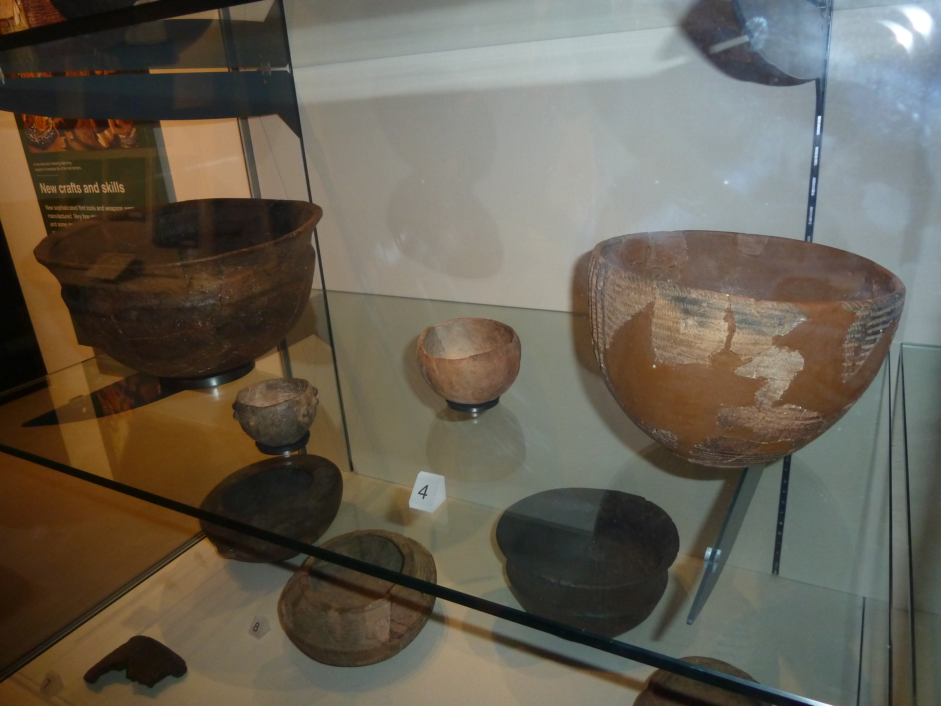 Ulster Museum prehistory Neolithic age 4 Neolithic pottery. Tamnyrankin, Co. Londonderry, Ireland.